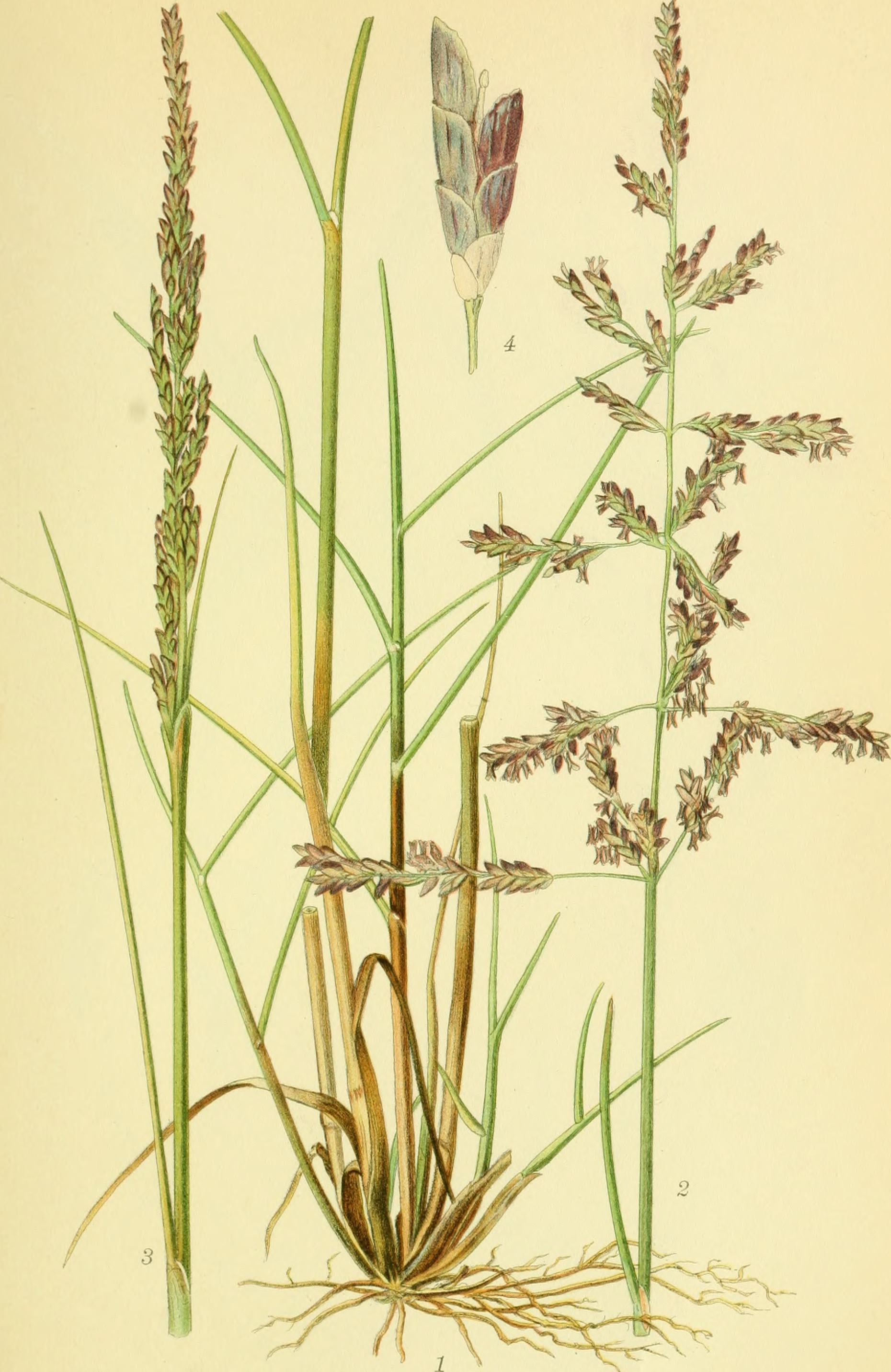 Title: Billeder af nordens flora Year: 1917 (1910s) Authors: Mentz, August, 1867-1944; Ostenfeld, C. H. (Carl Hansen), 1873-1931 Subjects: Plants; Plants; Plants Publisher: København, G. E. C. Gad's forlag Text Appearing Before Image: 655 Text Appearing After Image: STRAND-ANNELGRÆS, puccinellia maritima